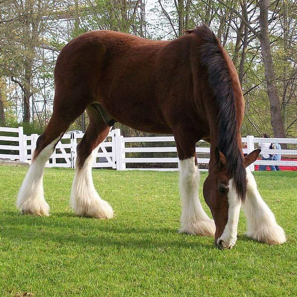 Bay Clydesdale, cropped and resized square for comparison with another pic